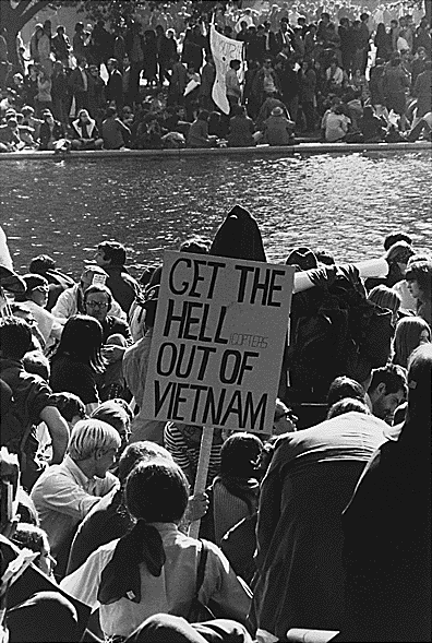 Vietnam War Protest in Washington, D.C. by Frank Wolfe, October 21, 1967. A protest sign reads "GET THE HELLicopters OUT OF VIETNAM". Public Domain. Additional source description and credit info from the National Archives: President (1963-1969 : Johnson). White House Photograph Office. (1963 - 1969) ( Most Recent) Type of Archival Materials: Photographs and other Graphic Materials Level of Description: Item from Collection LBJ-WHPO: White House Photo Office Collection, 11/22/1963 - 01/20/1969 ARC Identifier: 192603 Title: Public Reactions: The March on the Pentagon, 10/21/1967 Location: Lyndon Baines Johnson Library (NLLBJ), 2313 Red River Street, Austin, TX 78705-5702 PHONE: 512-721-0212, FAX: 512-721-0170, Production Date: 10/21/1967 Part of: Series: Johnson White House Photographs, 11/22/1963 - 01/20/1969 Scope & Content Note: Location: Washington, District of Columbia. Depicted: unidentified anti-war demonstrators. Access Restrictions: Unrestricted Use Restrictions: Unrestricted Variant Control Number(s): Other Identifier: 7051-33 NAIL Control Number: NLJ-WHPO-A-VN123 Copy 1 Copy Status: Preservation-Reproduction Storage Facility: Lyndon Baines Johnson Library (Austin, TX) Media Media Type: Negative Copy 2 Copy Status: Reference Storage Facility: Lyndon Baines Johnson Library (Austin, TX) Media Media Type: Photographic Print Index Terms Contributors to Authorship and/or Production of the Archival Materials Wolfe, Frank, Photographer